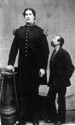 Martin Van Buren Bates (19th century photo)